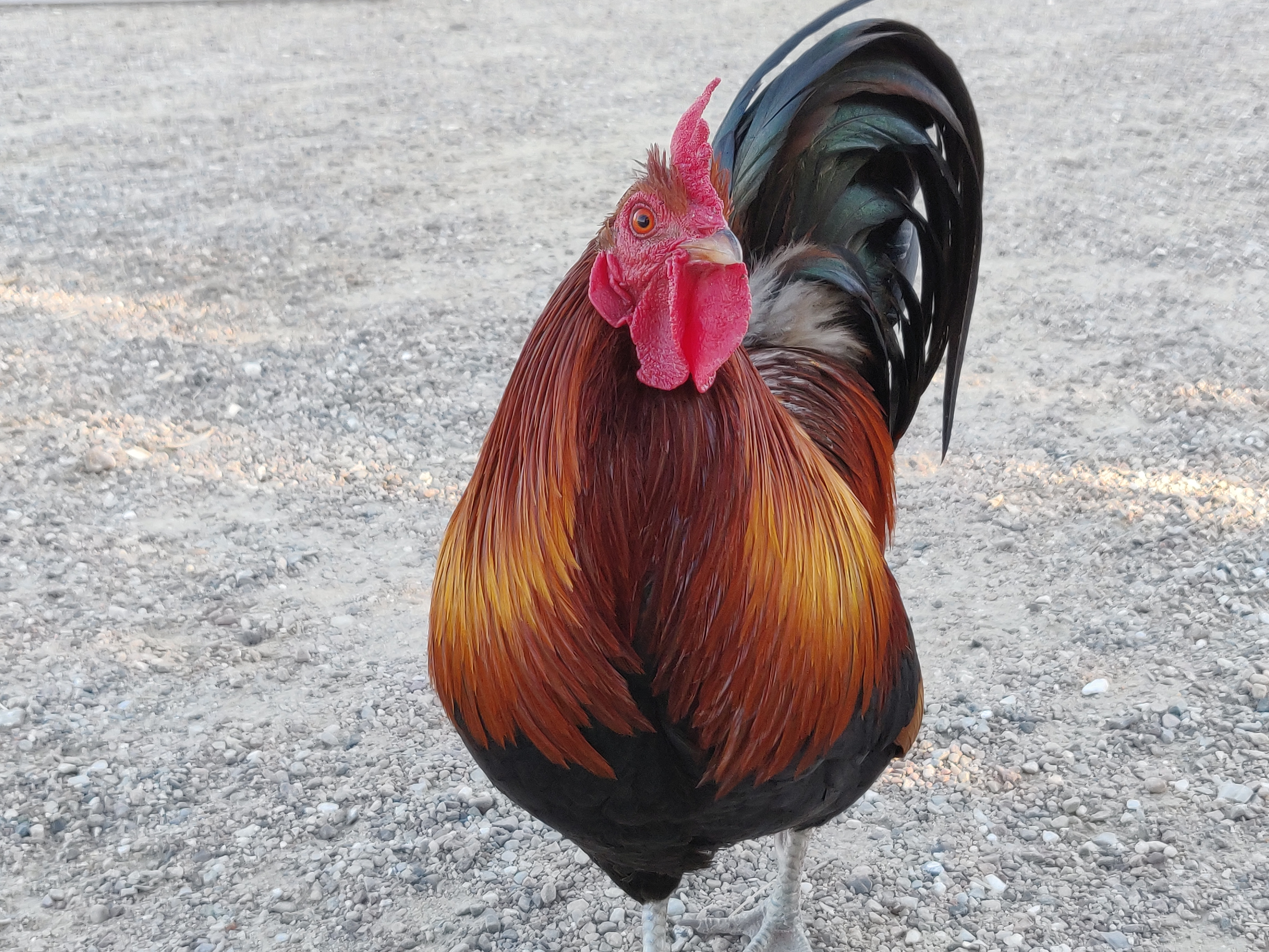 A rooster of the breed Danske landhøns at the Amager Nature Centre in Copenhagen.